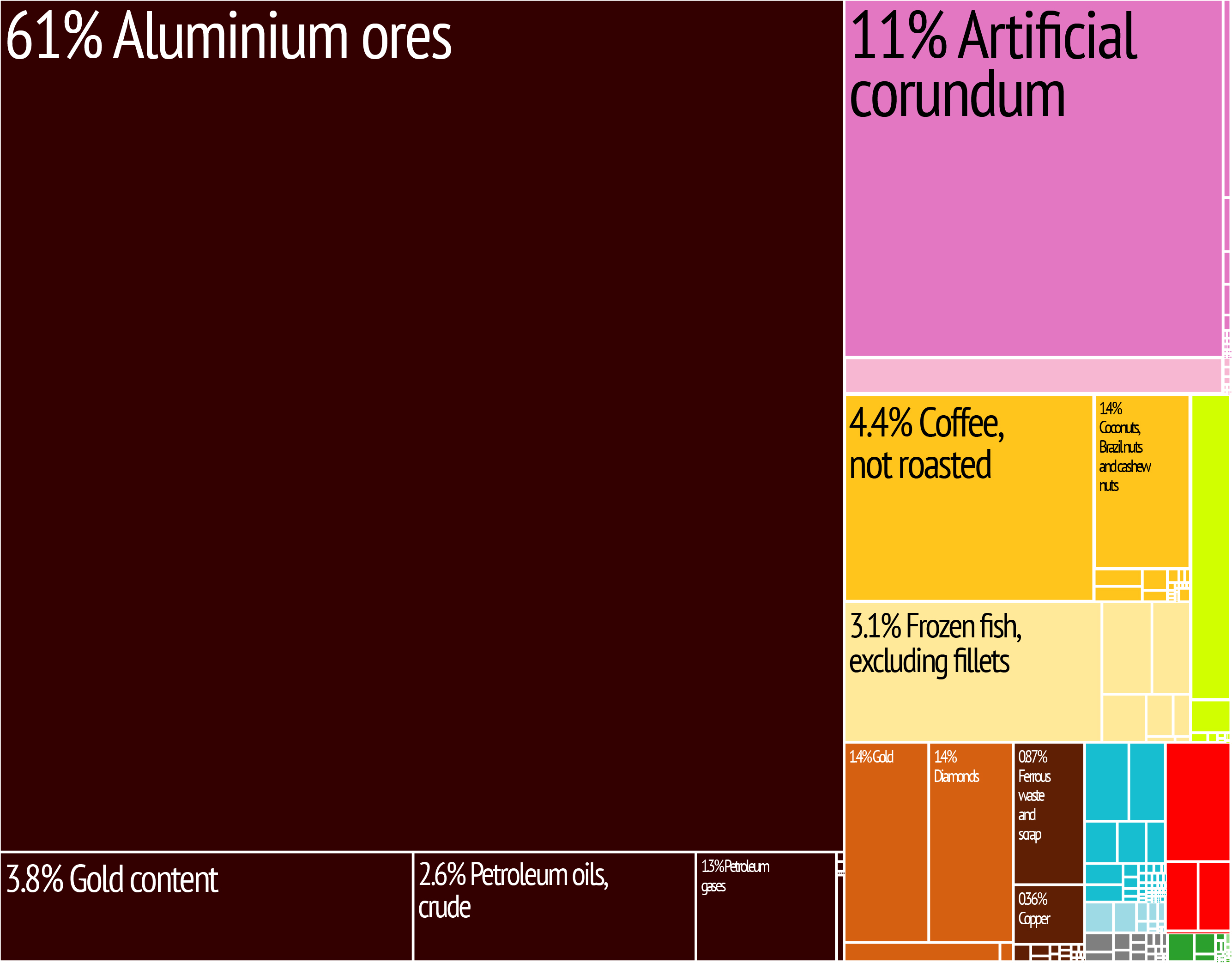 Guinea Export in 2009 Treemap from MIT Harvard Economic Complexity Observatory